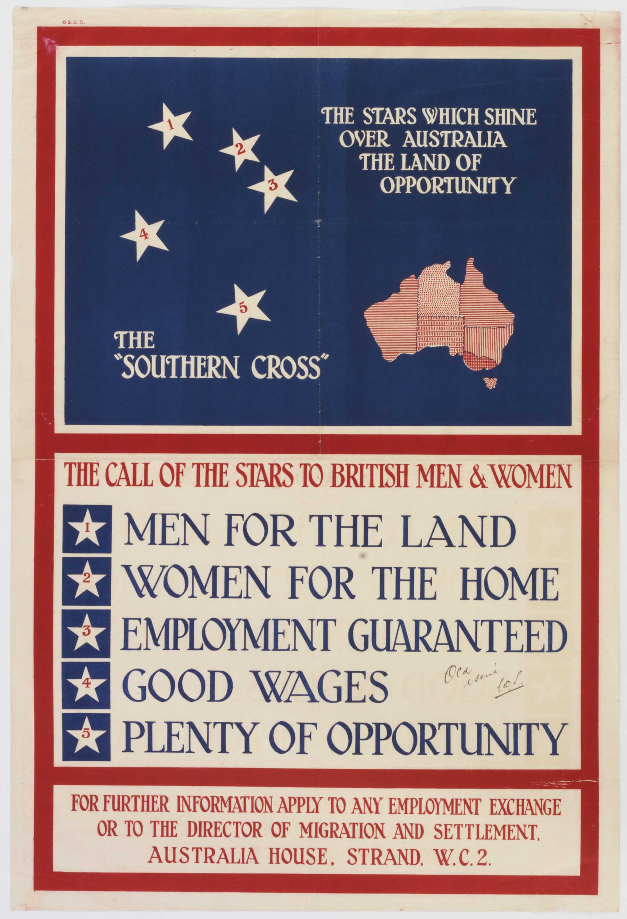 Australian Government poster — "The Southern Cross, the call of the stars to British Men & Women" issued by the Overseas Settlement Office ot attract immigrants.